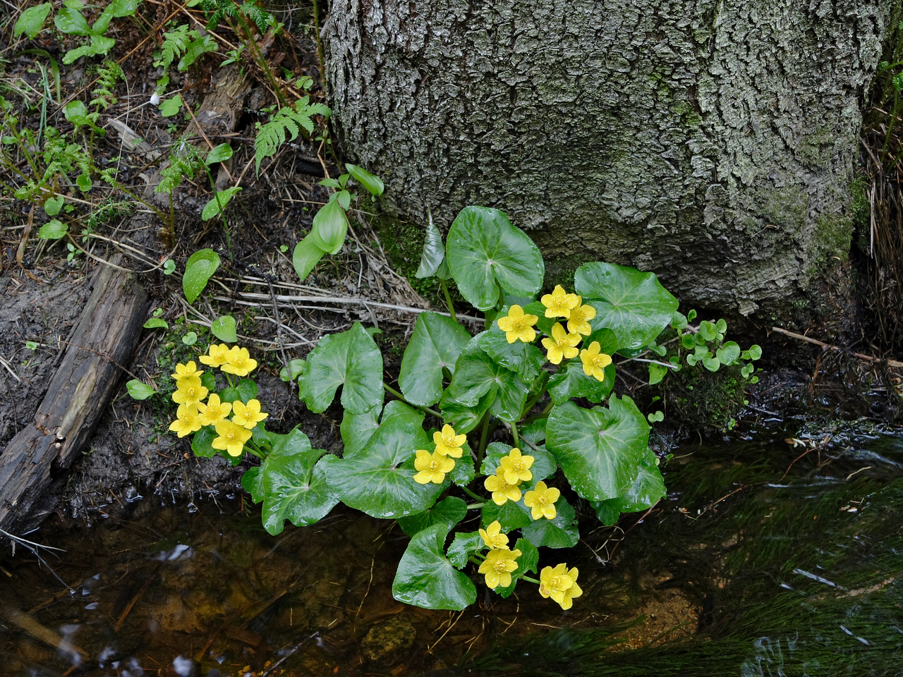 Wikipedia lists over 10 different English names for this plant (Caltha palustris - Marsh Marigold, Kingcup, Mayflower, May Blobs, Mollyblobs, Pollyblobs, Horse Blob, Water Blobs, Water Bubbles, Gollins and the Publican). A "loved child" indeed...